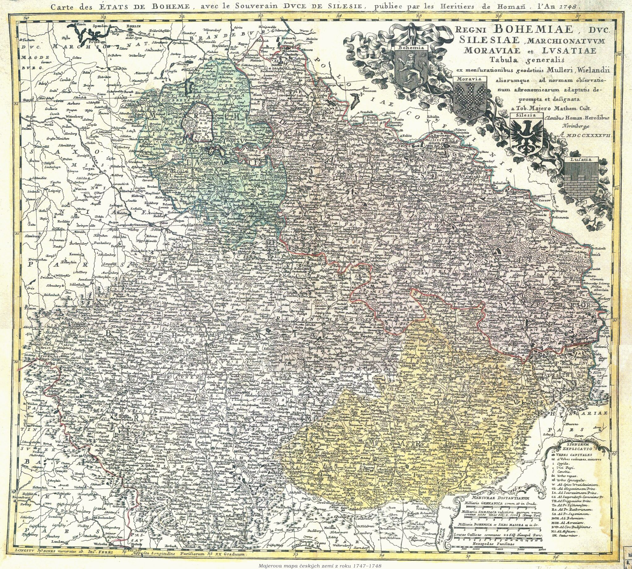 Map - Bohemia, Moravia, Silesia, Lusatia 1747